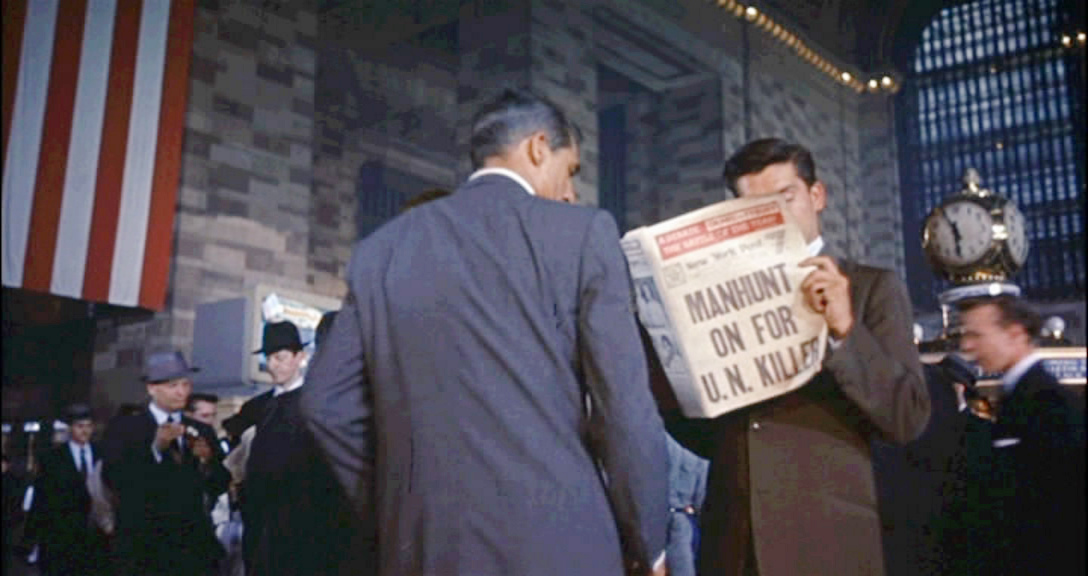 Screenshot of Cary Grant looking at newspaper. Update: Adding undistorted image.